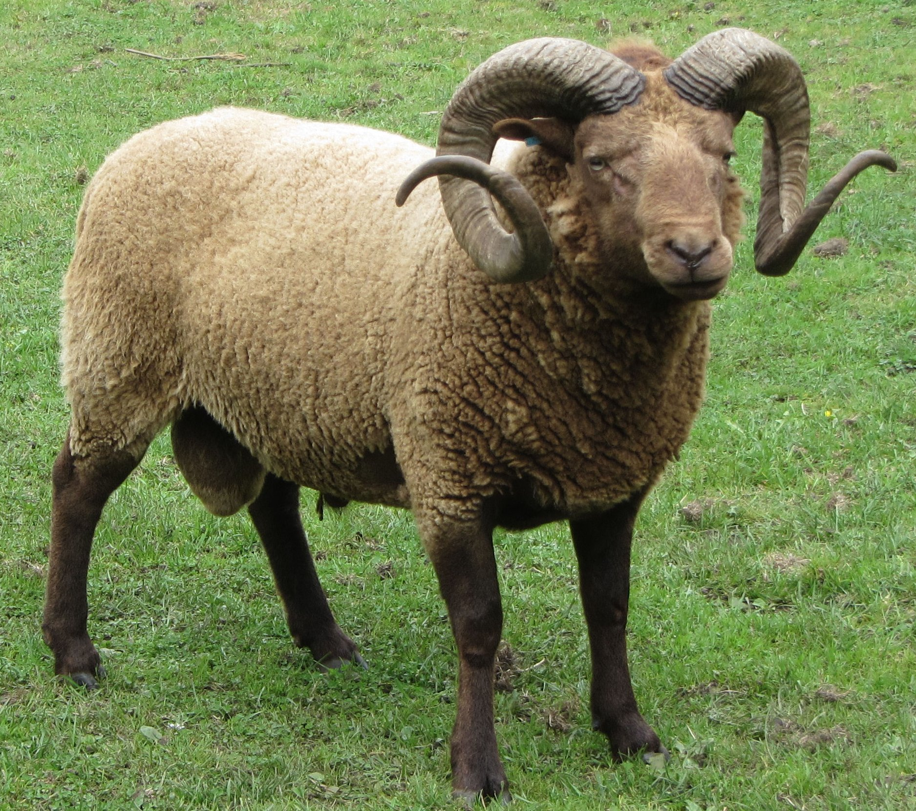 Manx Loaghtan ram with two horns